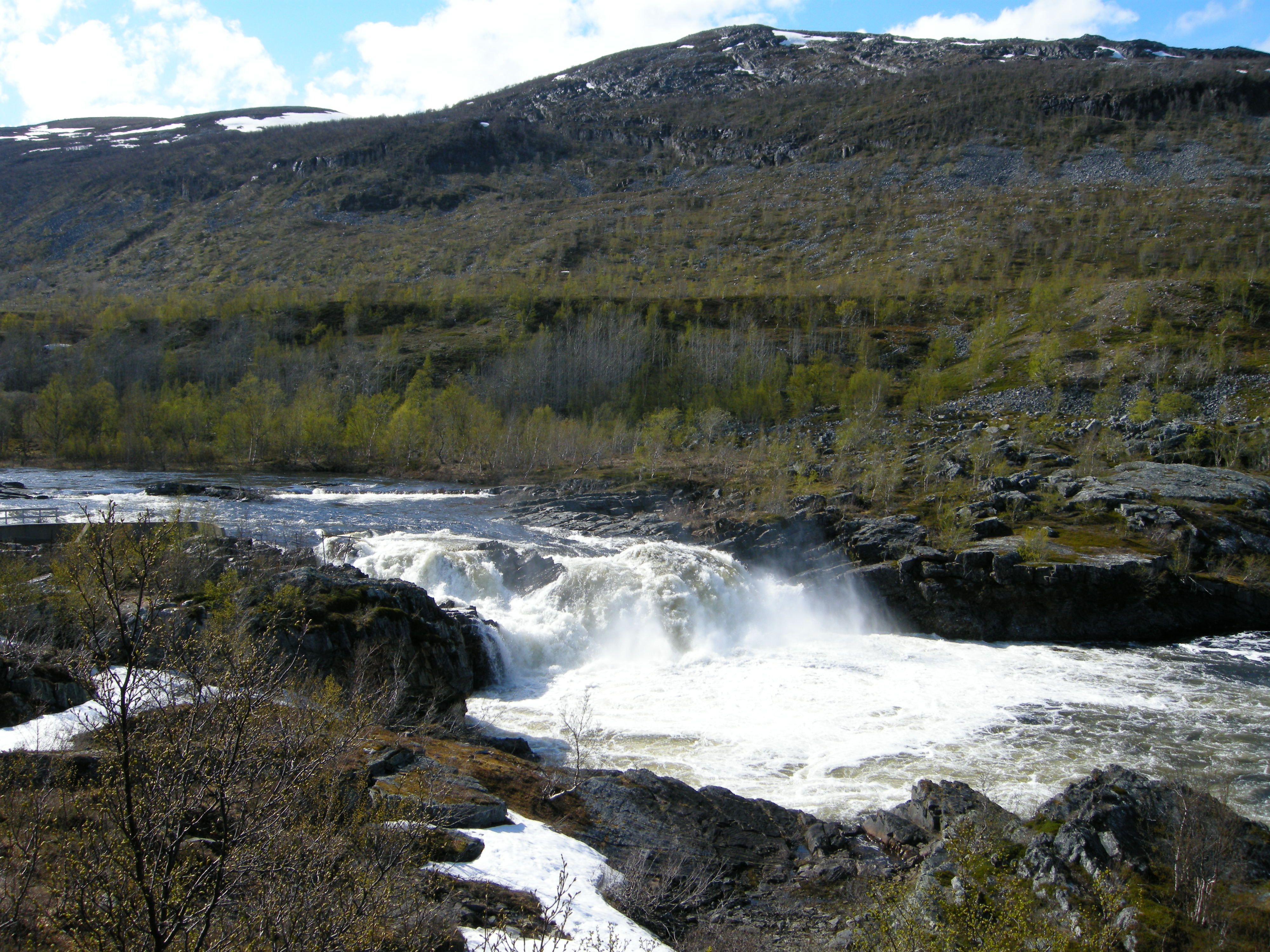 Stabbursdalen national park, Norway